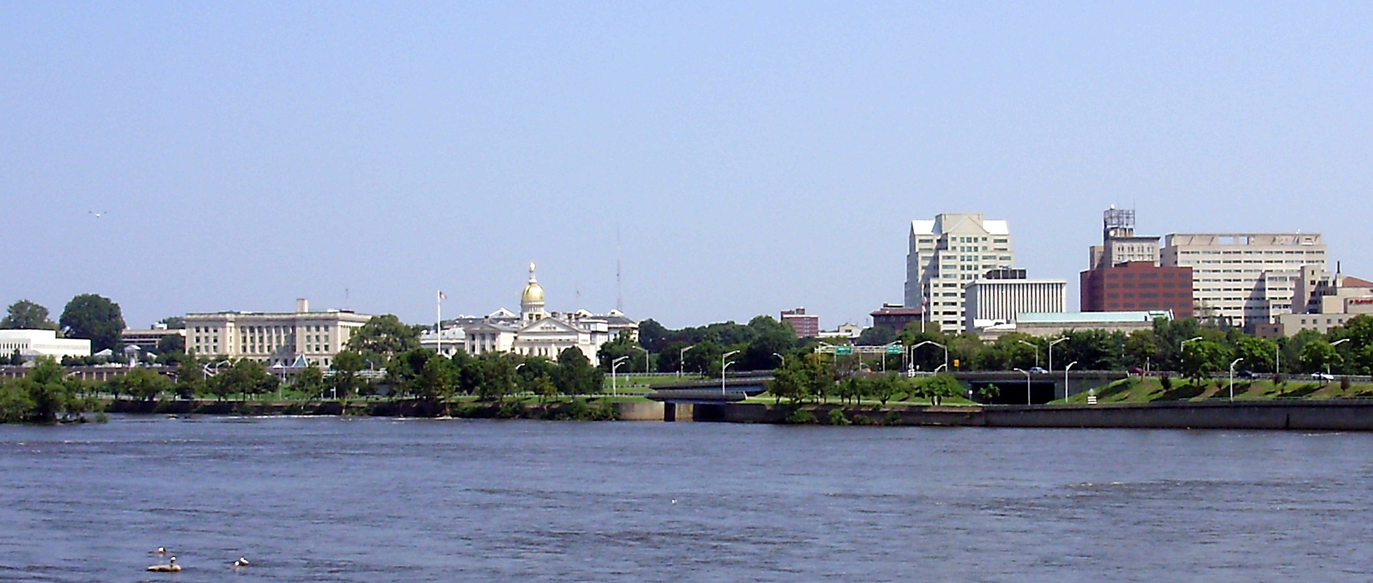 View of downtown Trenton, New Jersey and the mouth of the Assunpink Creek from across the Delaware River in Morrisville, Pennsylvania